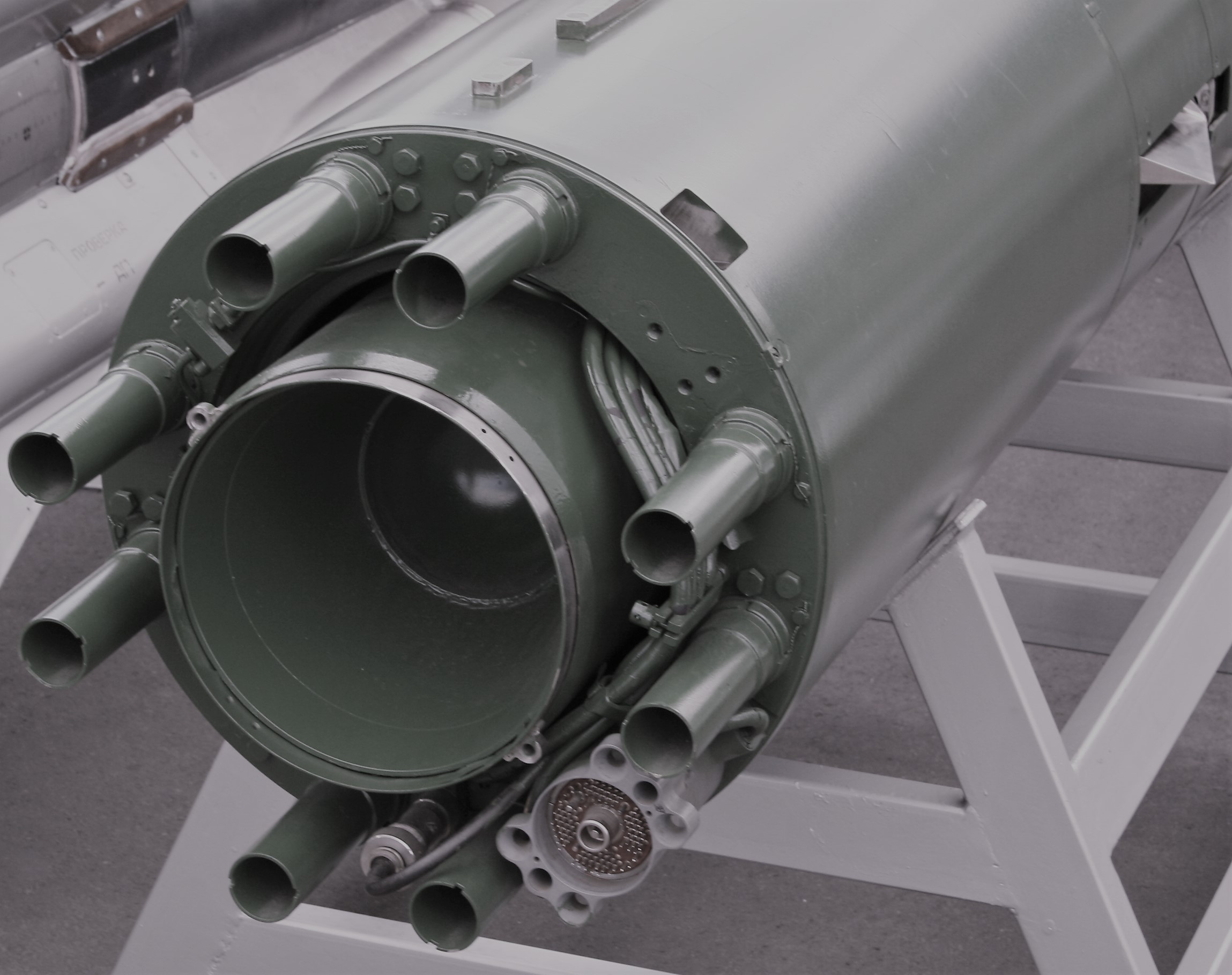 Shkval's main rocket orifice and its periferial steering nozzles. At the 5 o/clock position is the electronic socket for target information update and launch initiation.